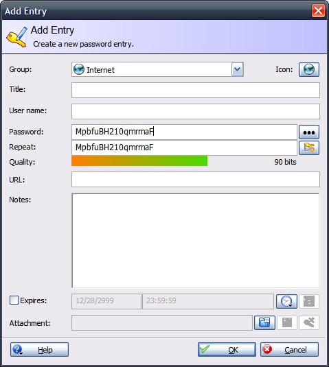 Screenshot of KeePass Password Safe